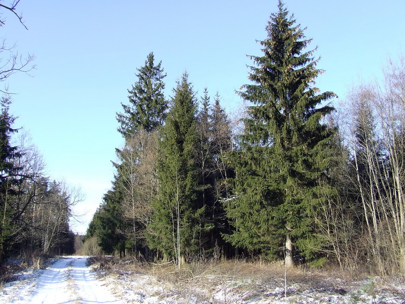 Kamėlava forest.